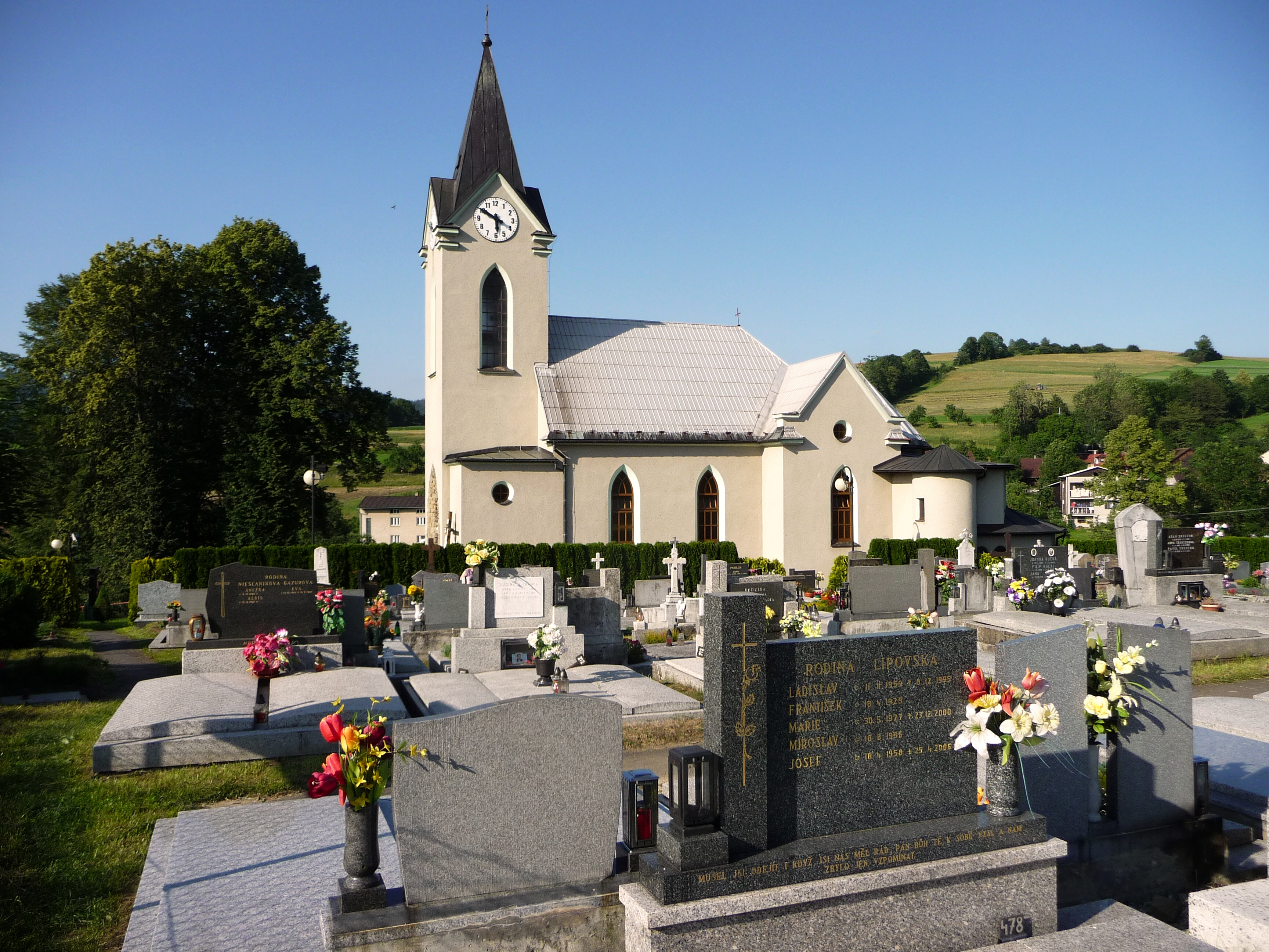 Assumption of Virgin Mary Church in Bukovec (Moravian-Silesian Region, Czech Republic).